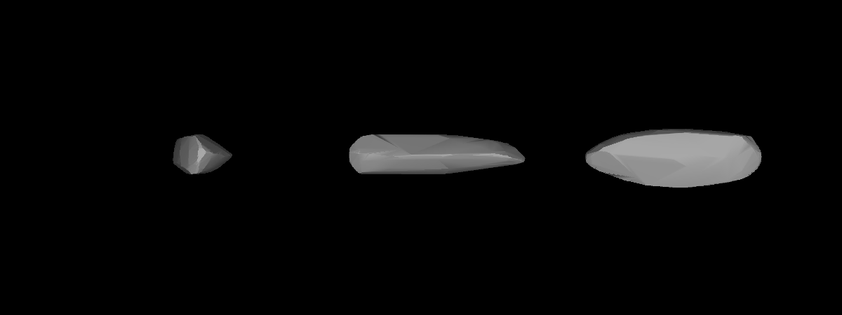 A three-dimensional model of 1865 Cerberus that was computed using light curve inversion techniques.